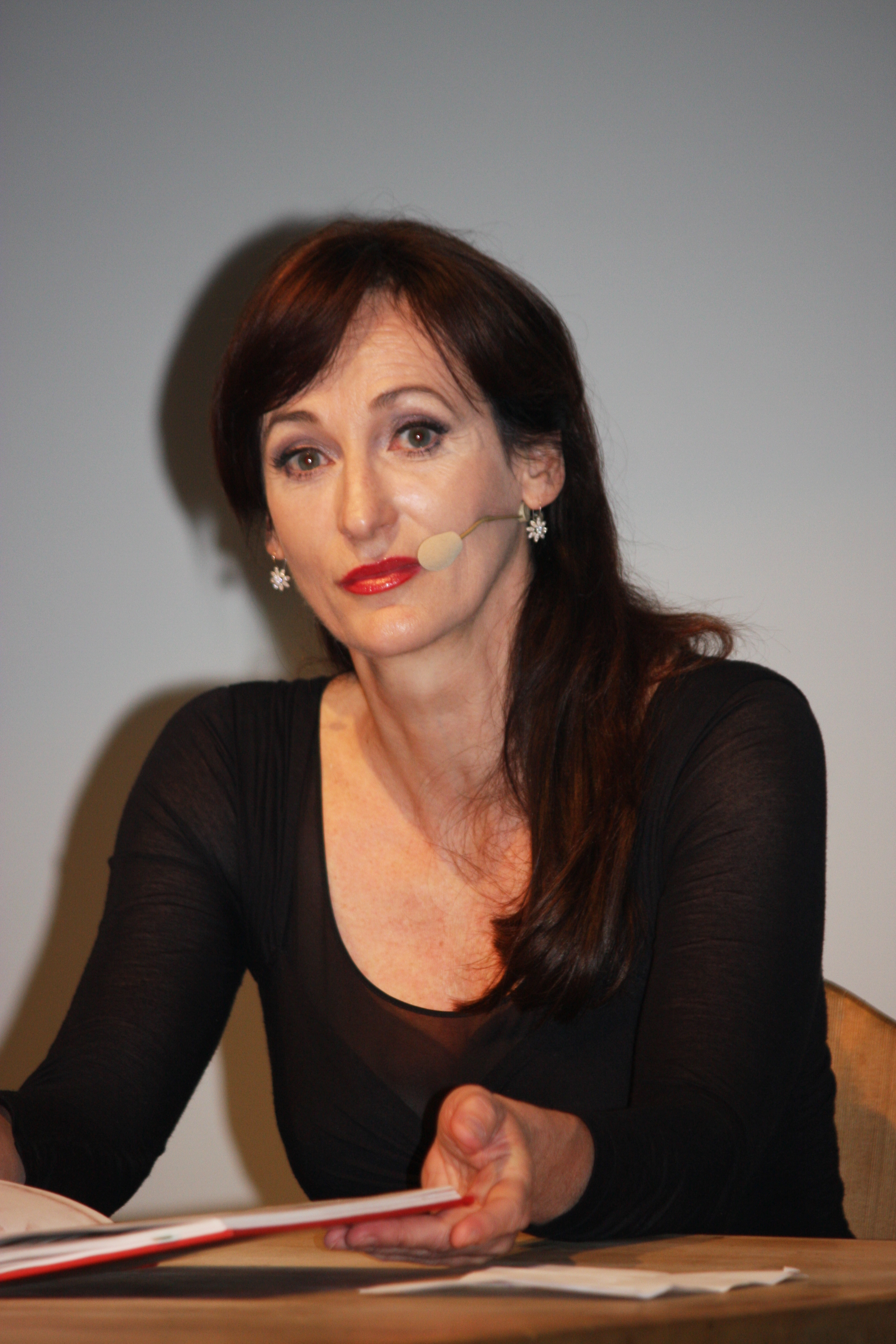 Saša Pavček, Slovene actor, poet